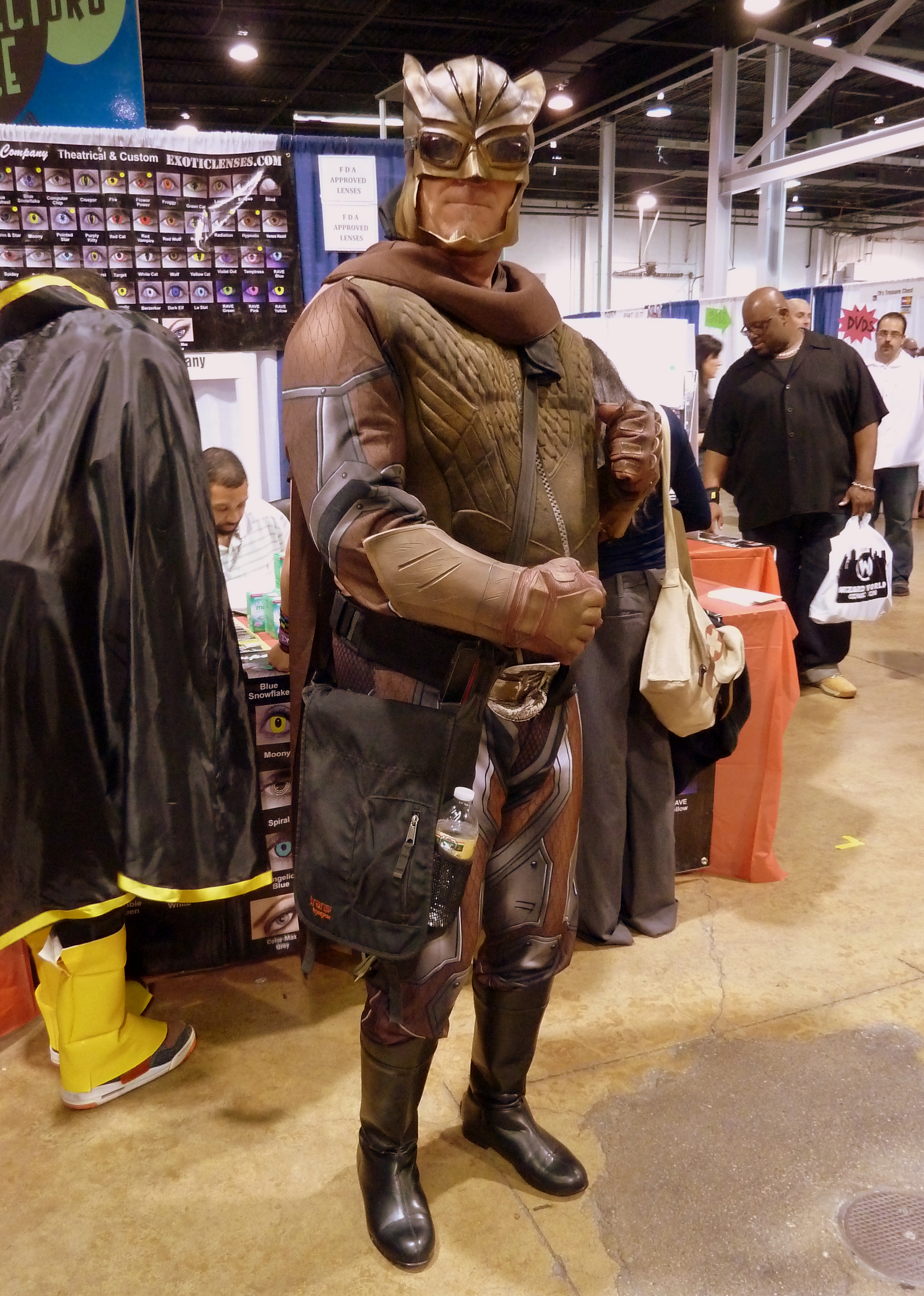 Cosplay of Nite Owl (from DC Comics' Watchmen) at Wizard World Chicago 2012.